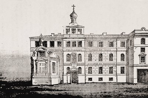 House of Diligence (Kronstadt)